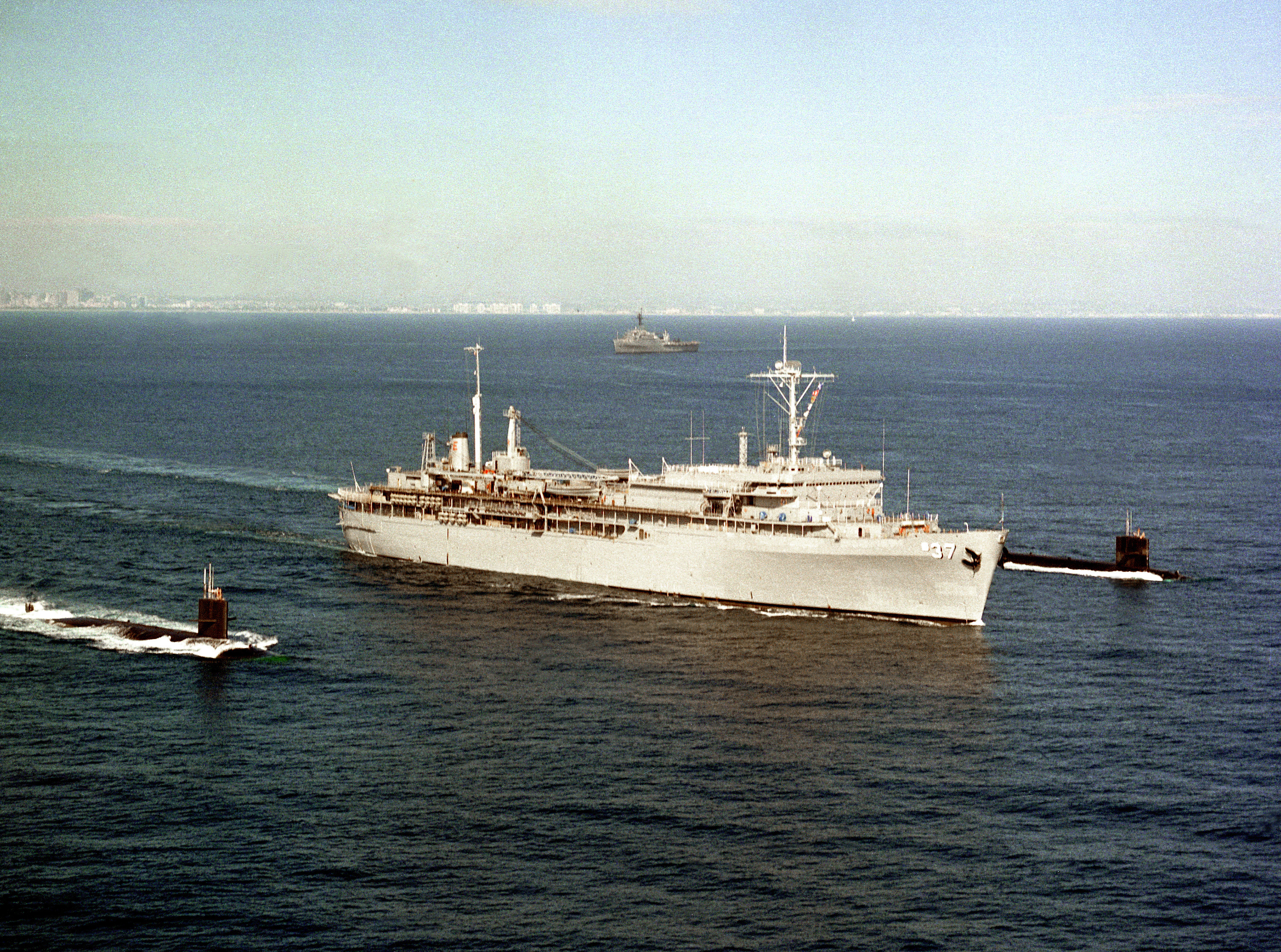 The U.S. Navy submarine tender USS Dixon (AS-37) departs San Diego, California (USA), with the attack submarines USS Guitarro (SSN-665), left, and USS Gurnard (SSN-662) on 17 September 1990. The ships were taking part in exercise "FallEx '90".